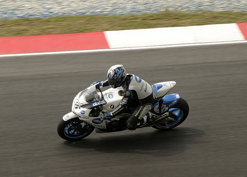 PSB and MotoGP in Malaysia